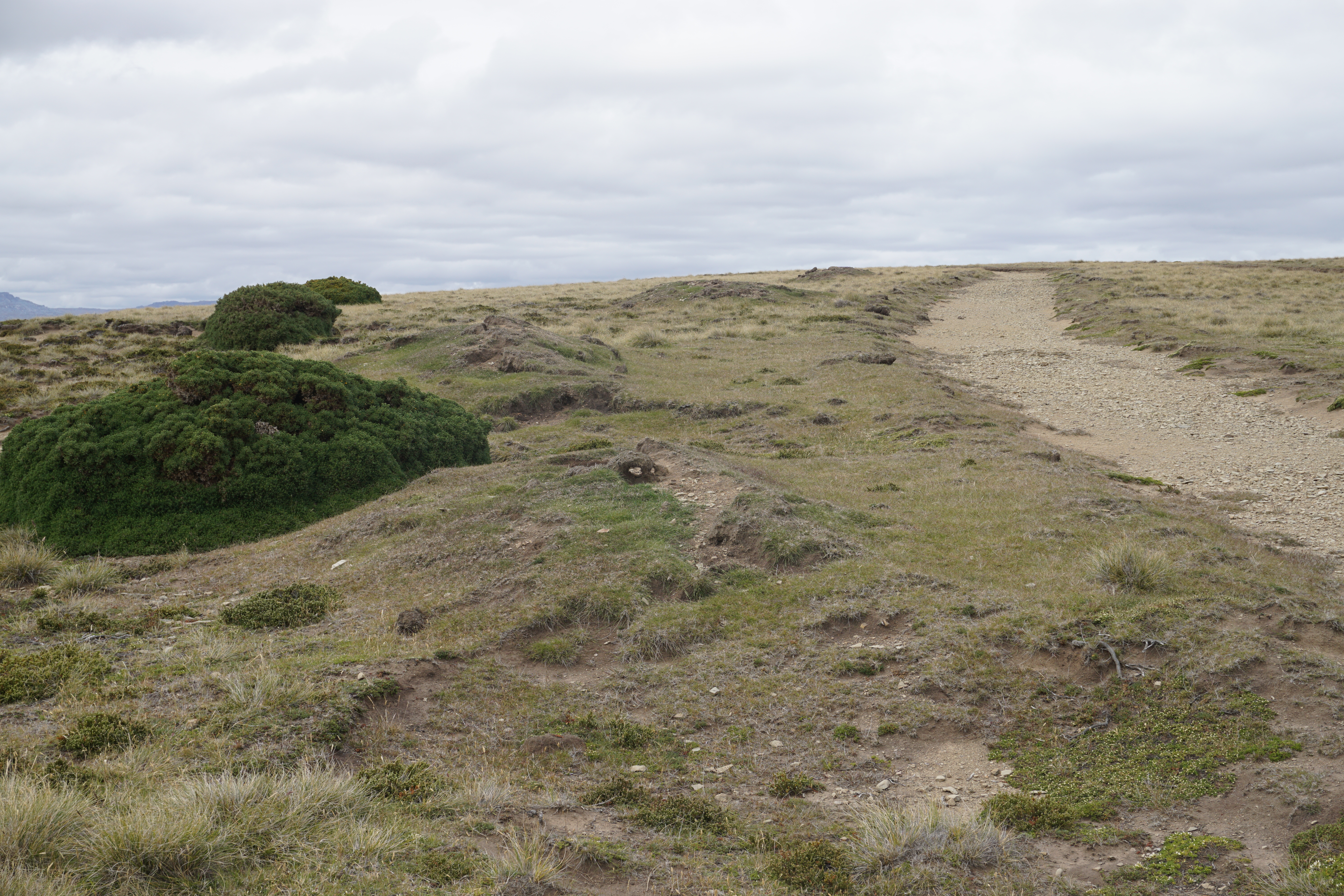 Remnants of 1982 Argentinian defensive positions along gorse hedge on Darwin Ridge, Darwin, Falklands